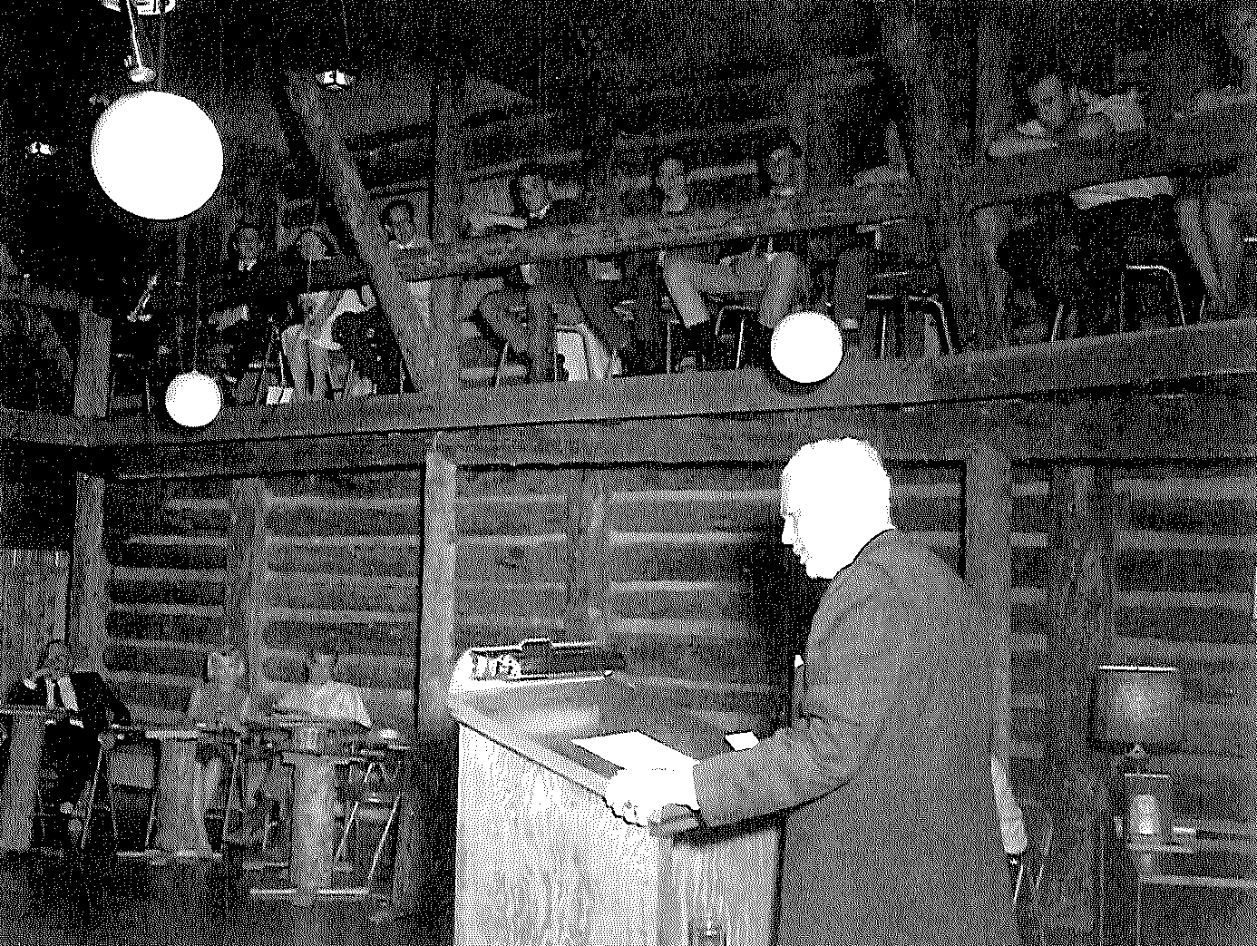 Robert LeFevre lecturing at this Colorado-Springs based Rampart College/Freedom School